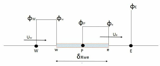 This diagram shows values of properties transported from nodes to faces